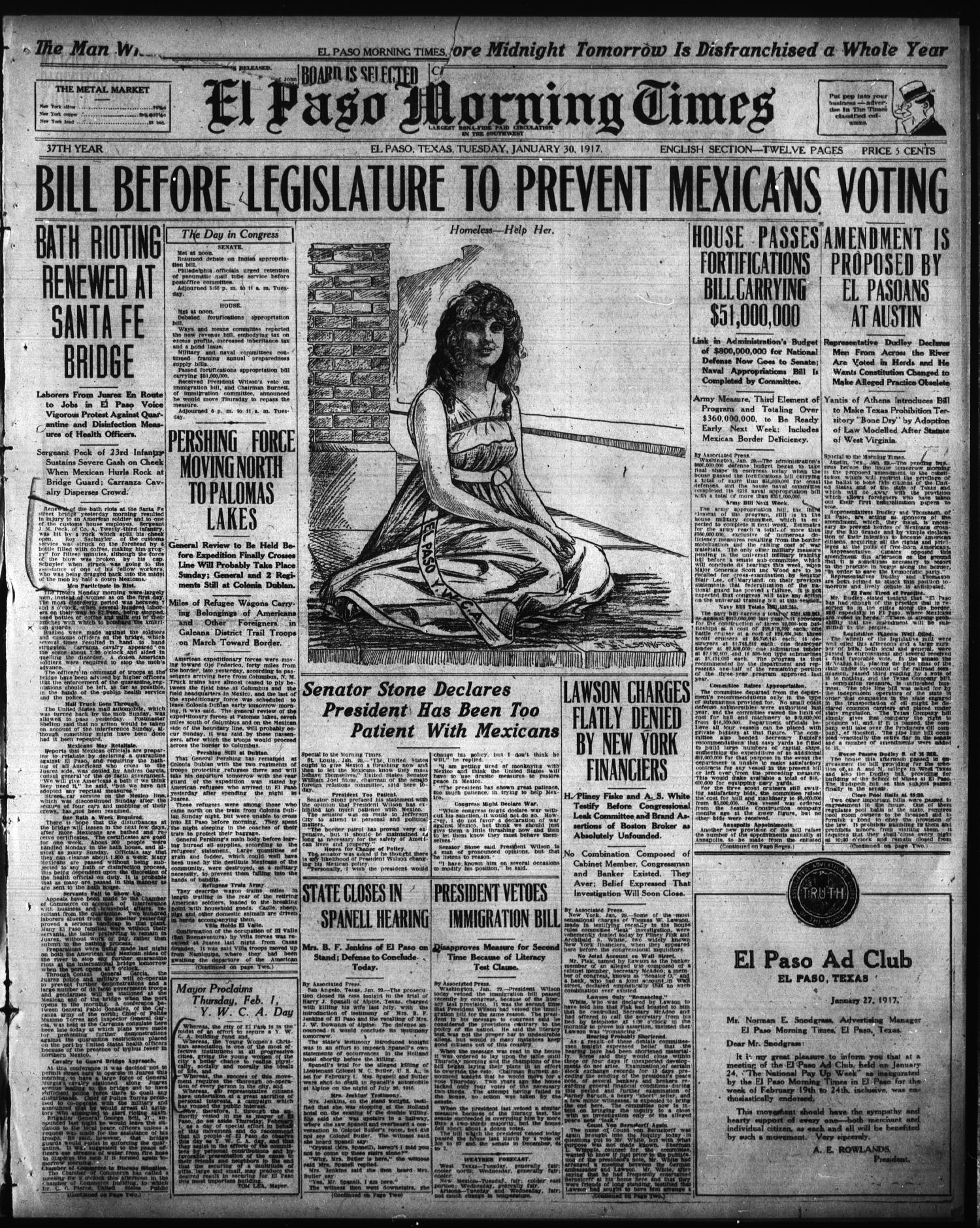 El Paso Morning Times, El Paso, Texas, January 30, 1917 Headlinedː "Bill Before Congress To Prevent Mexicans Voting" and reporting on the 1917 Bath Riots.